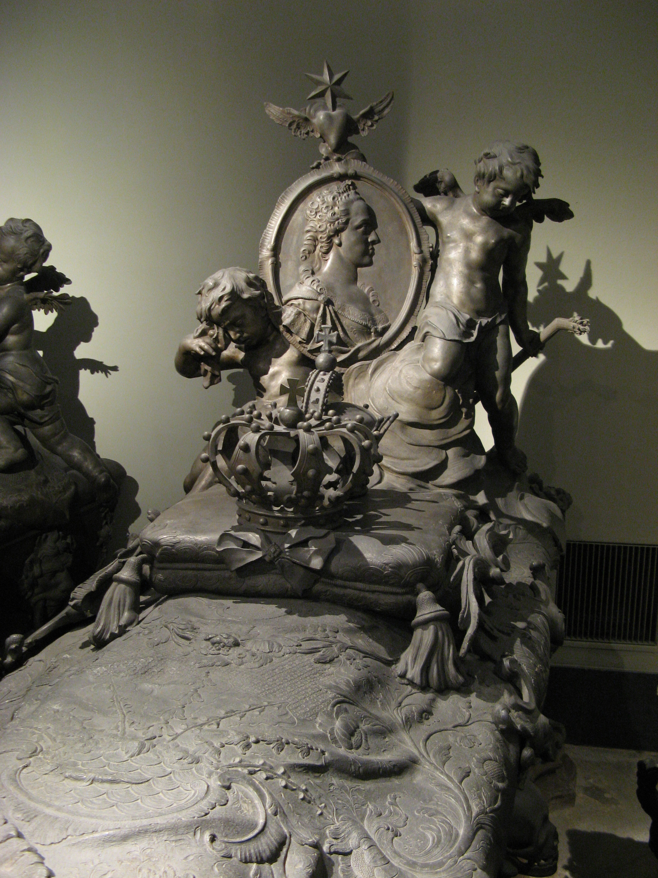 Tomb of Isabella of Parma (1741-1763)